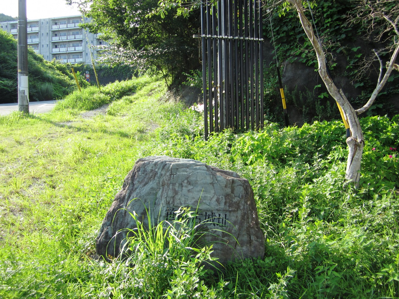 The Site of Sasaoka Old Castle in Hamamatsu, Shizuoka.